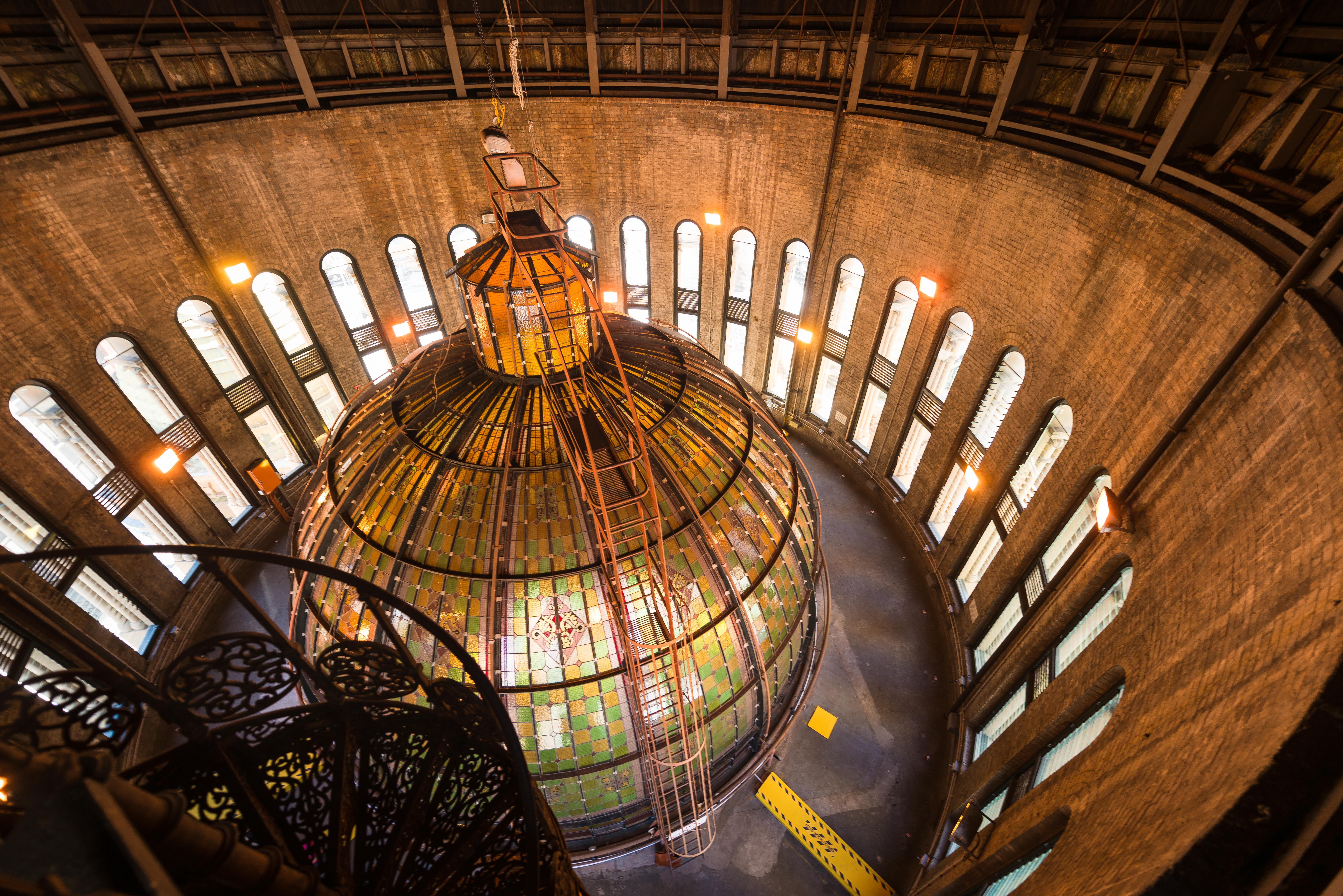 Queen Victoria Building Stain-Glass Dome from Above